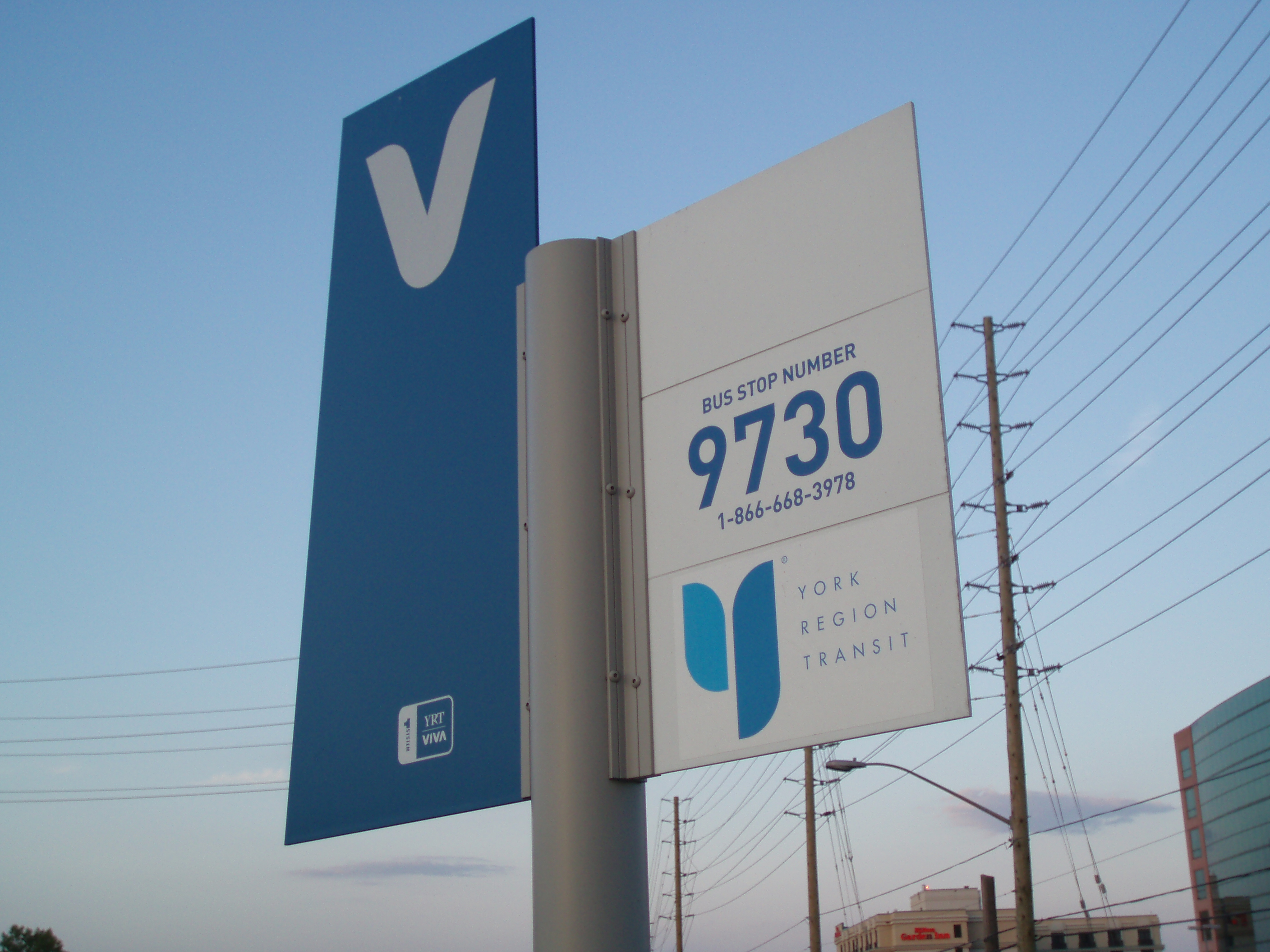 Viva Bus Stop Sign